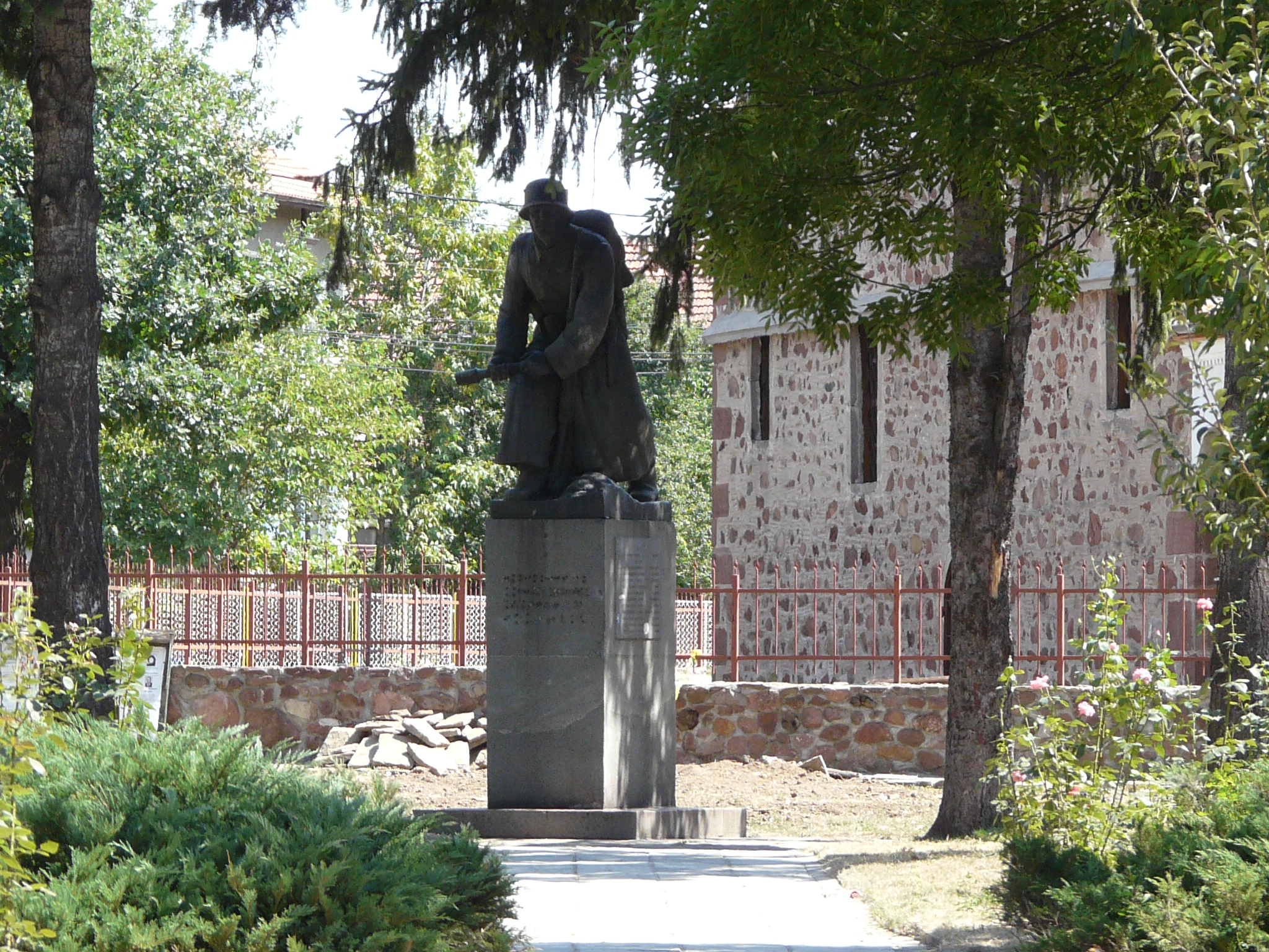 Military monument, Negovan, Bulgaria